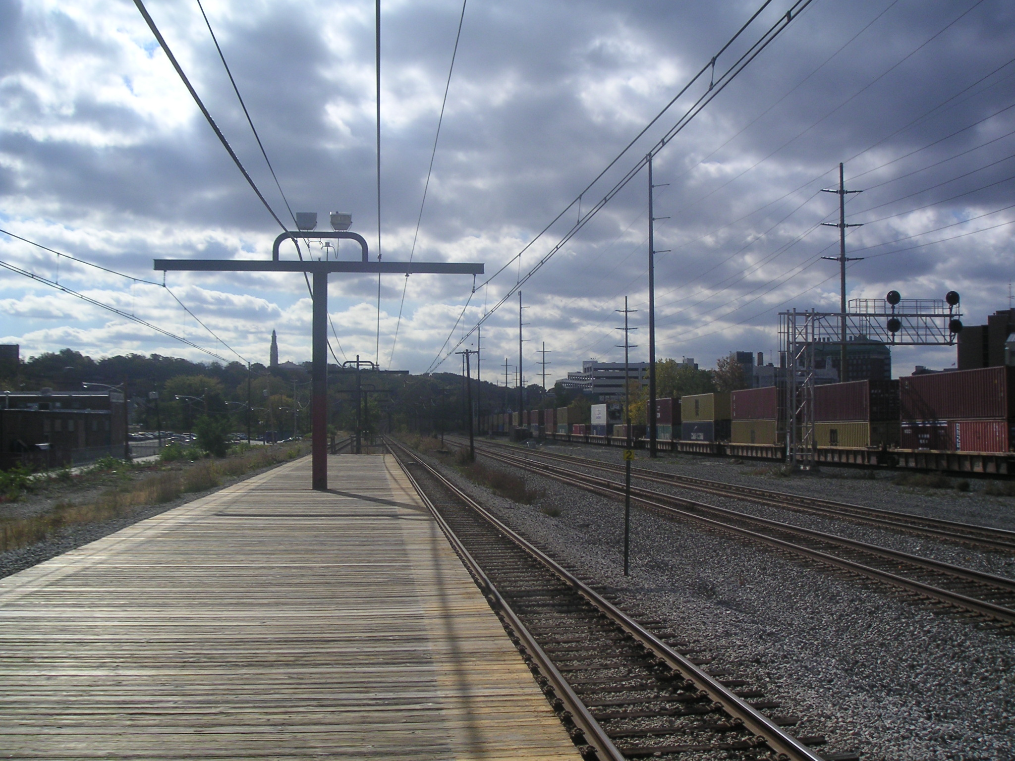 Cleveland RTA rapid transit station at East 120th Street and Euclid Avenue